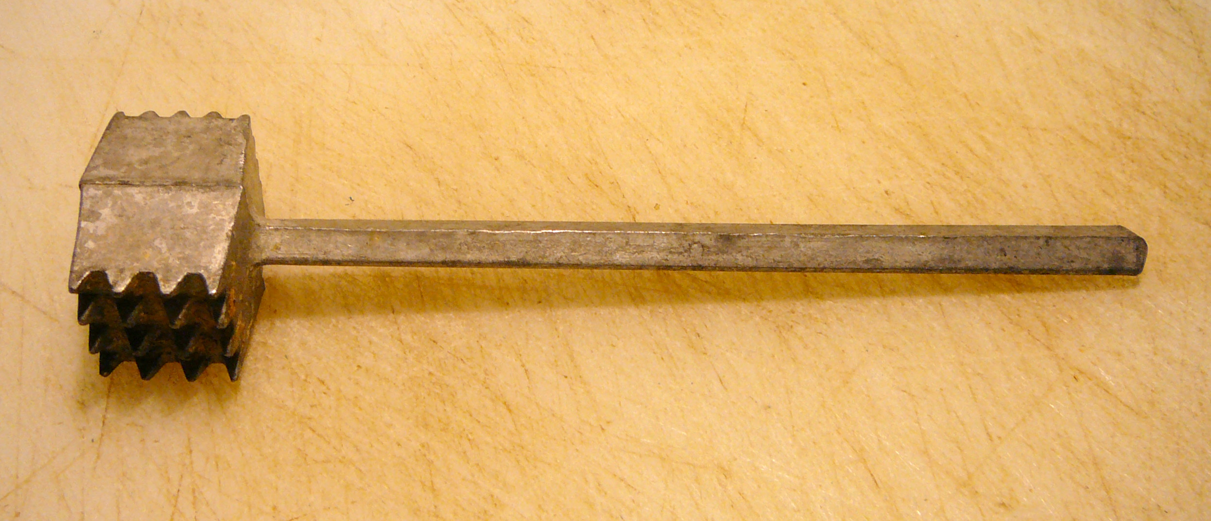 Meat mallet on cutting board